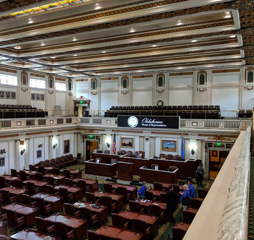 Oklahoma House of Representatives chamber, taken from visitor's balcony